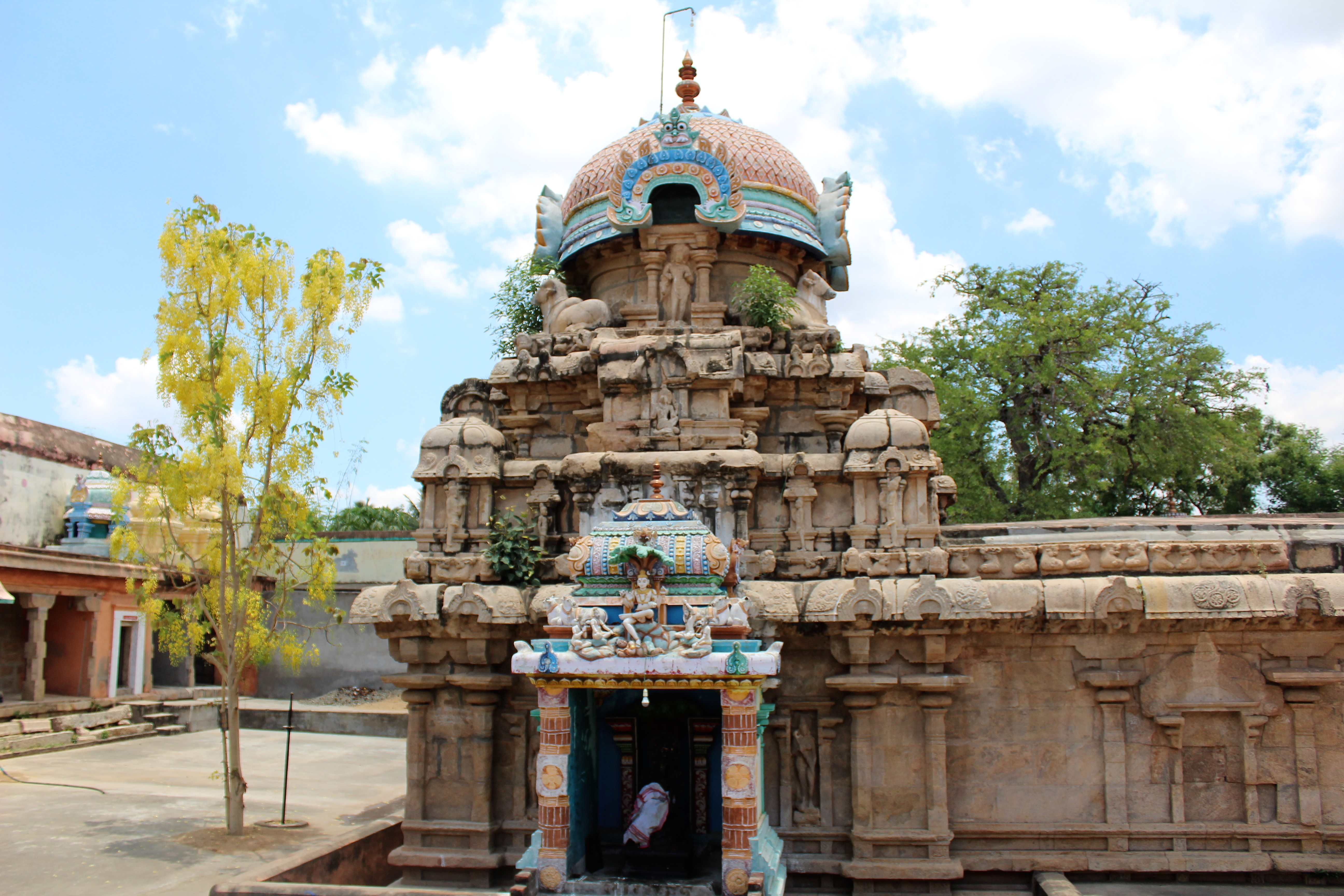 vedapureeswarar temple Thiruvedhikudi